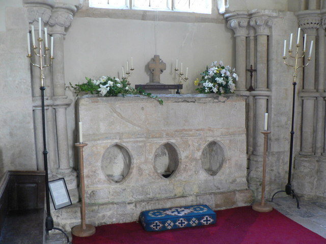 Whitchurch Canonicorum: the shrine of St. Wite The 519406 is the only church in England apart from Westminster Abbey to possess the remains of a saint. Little is known of her, but tradition has it that St. Wite (or St. Candida), who gives the church its dedication and the village its name, was a Saxon woman who was killed by the Danes one time that they landed at Charmouth, in the ninth century. Her shrine, in the northern part of the church, has been a destination of pilgrimage for centuries and limbs or garments of the sick would be placed into the oval openings in the hope of healing. Today, there were many prayer requests left within the openings.